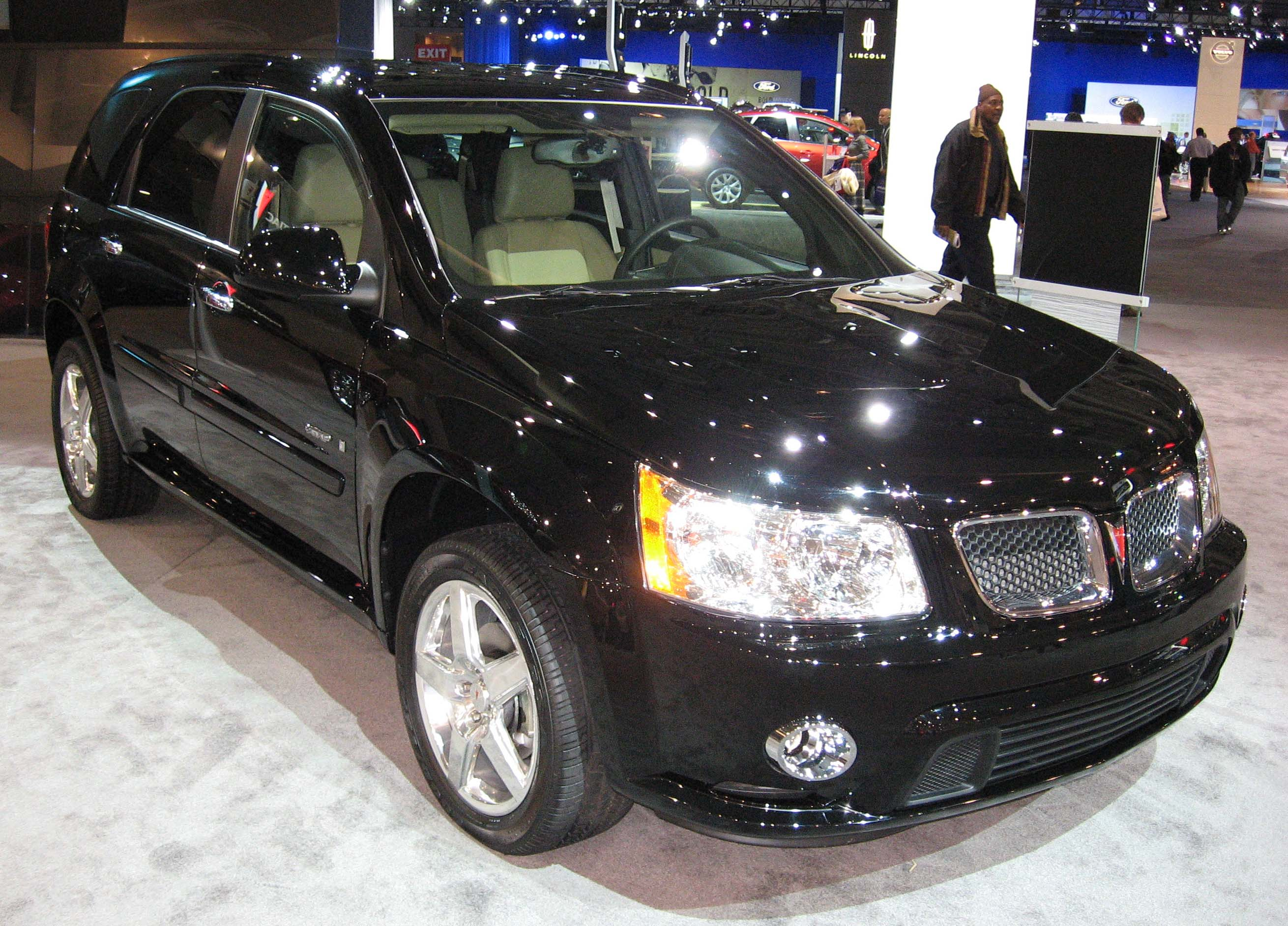 2008 Pontiac Torrent GXP photographed at the Washington Auto Show.